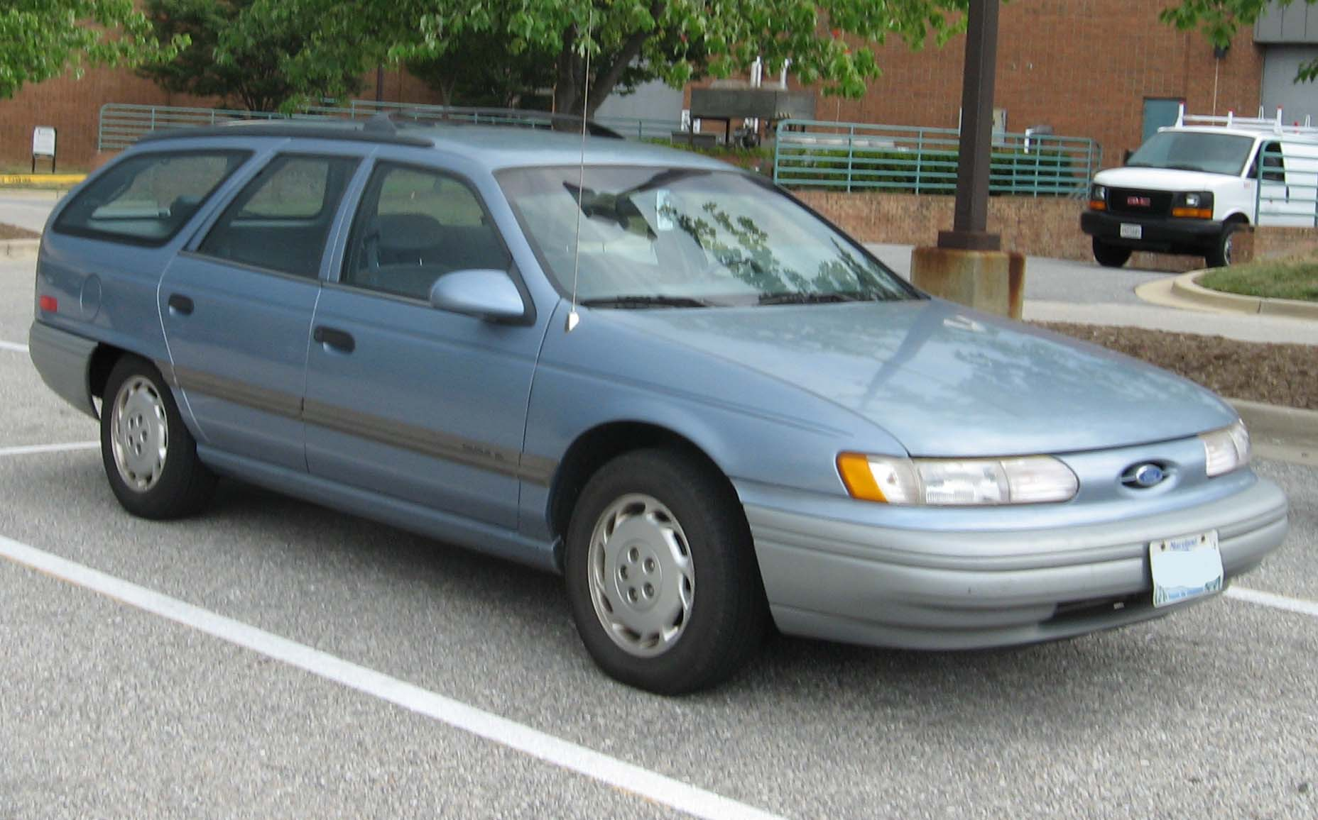 1992 Ford Taurus GL photographed in College Park, Maryland, USA.